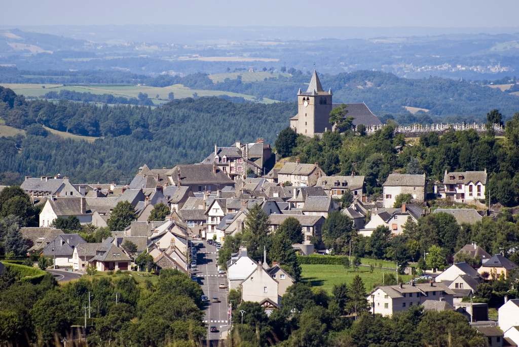 View on Laguiole, France